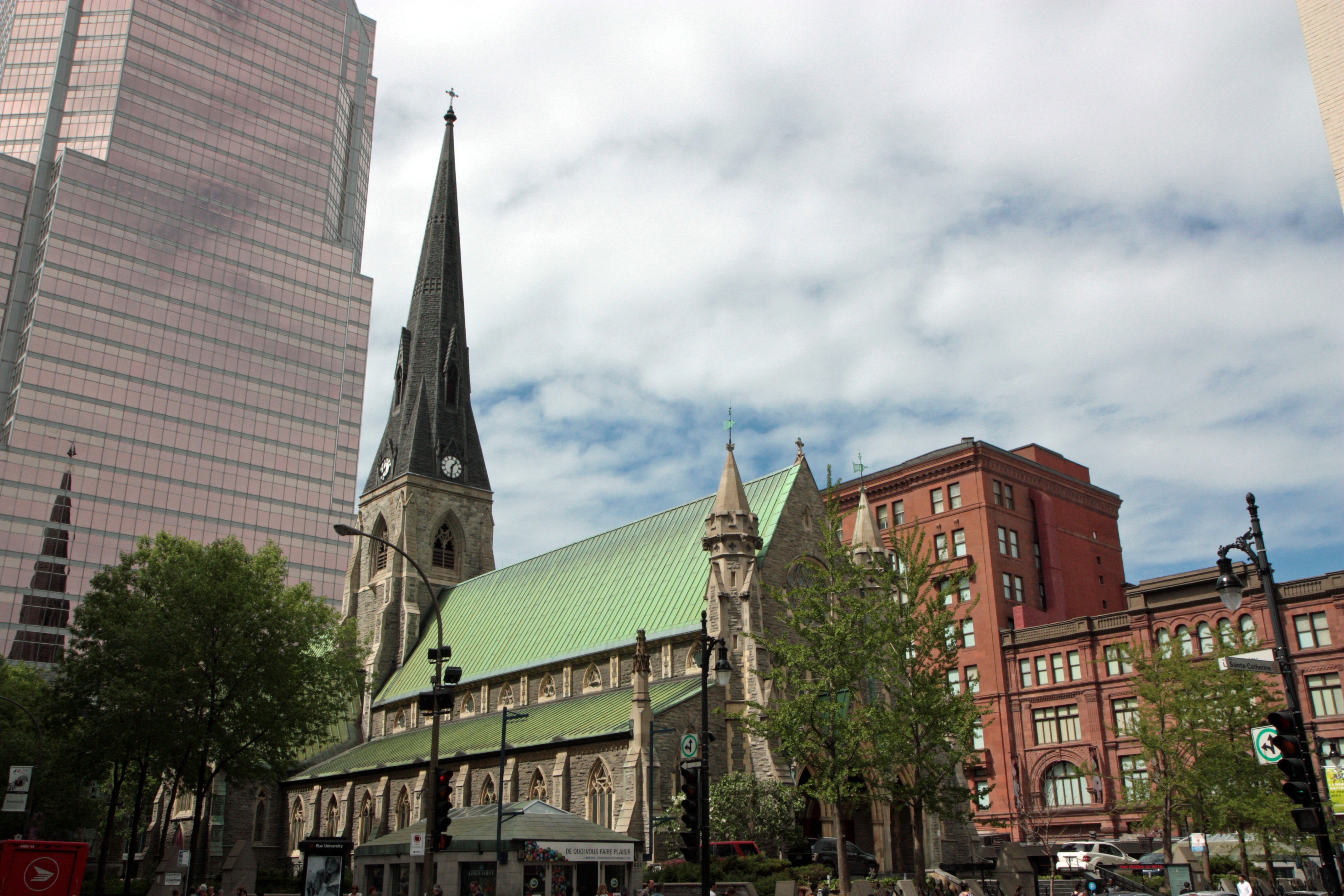 Christ Church Cathedral and Tour KPMG in downtown Montreal, Quebec, Canada